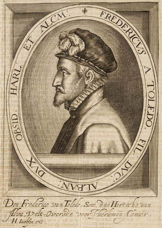 Fadrique Álvarez de Toledo